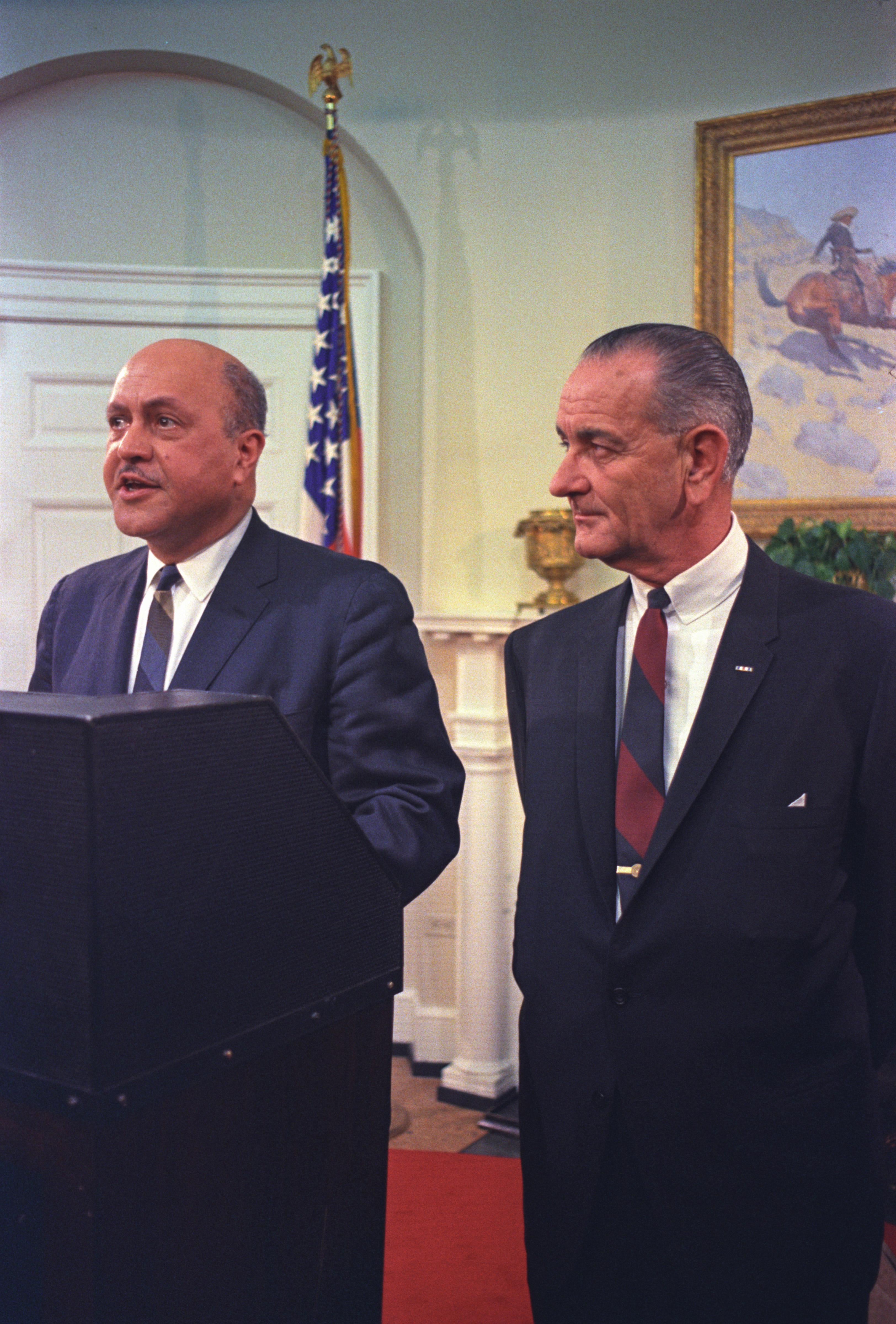 Swearing in of Secretary of Housing and Urban Development Robert C. Weaver in the Fish Room of the White House, 1966. Lyndon Johnson at right.